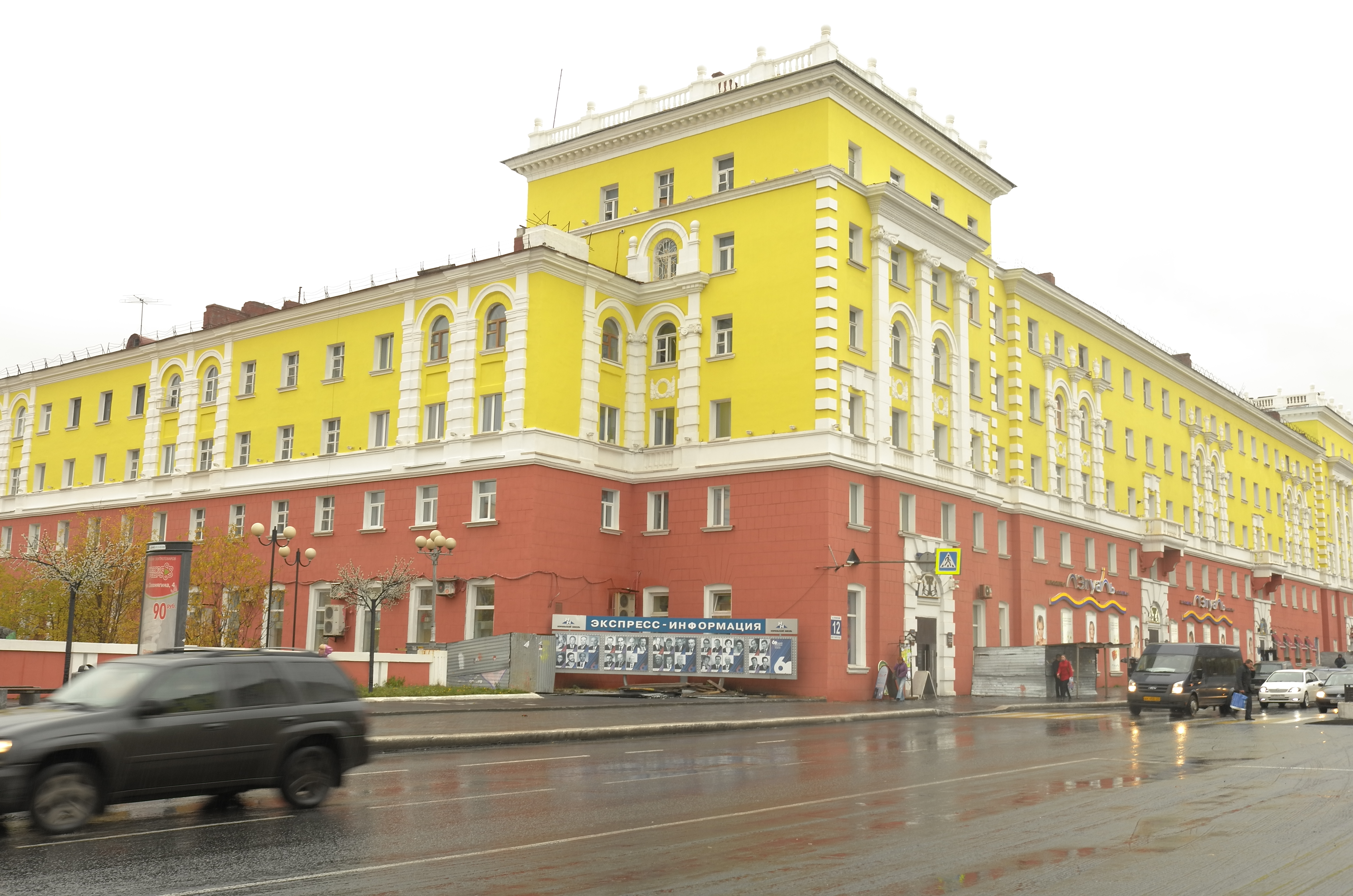 Krasnoyarsk Krai, Norilsk, Lenin Avenue, 12